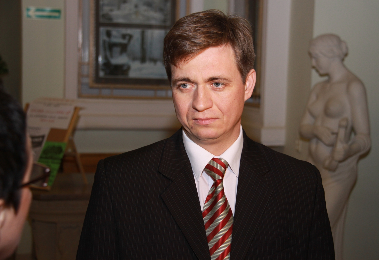 Polish MP Sławomir Kopyciński, member of party Your Movement